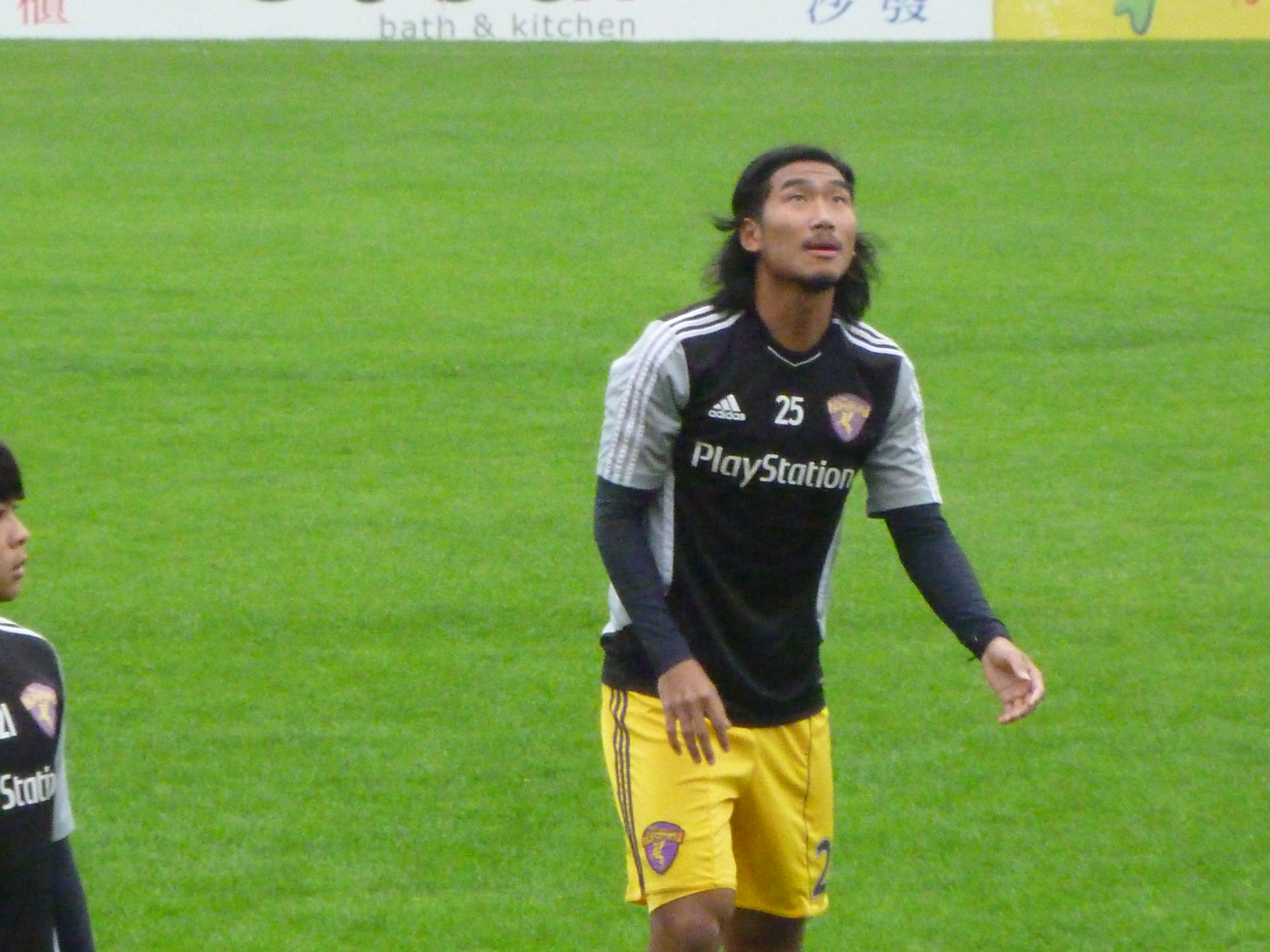 So Wai Chuen (25 Feb 2012 Hong Kong League Cup quarter final, TSW Pegasus vs Sham Shui Po, Mong Kok Stadium)